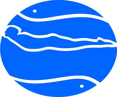 Logo Georgian Federation of National Swimming Styles